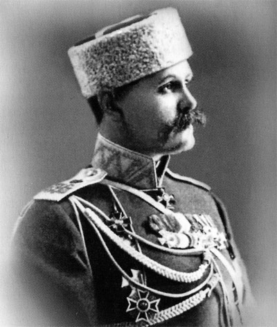 Vasily Dzhunkovsky, Governor of Moscow, 1908-1913